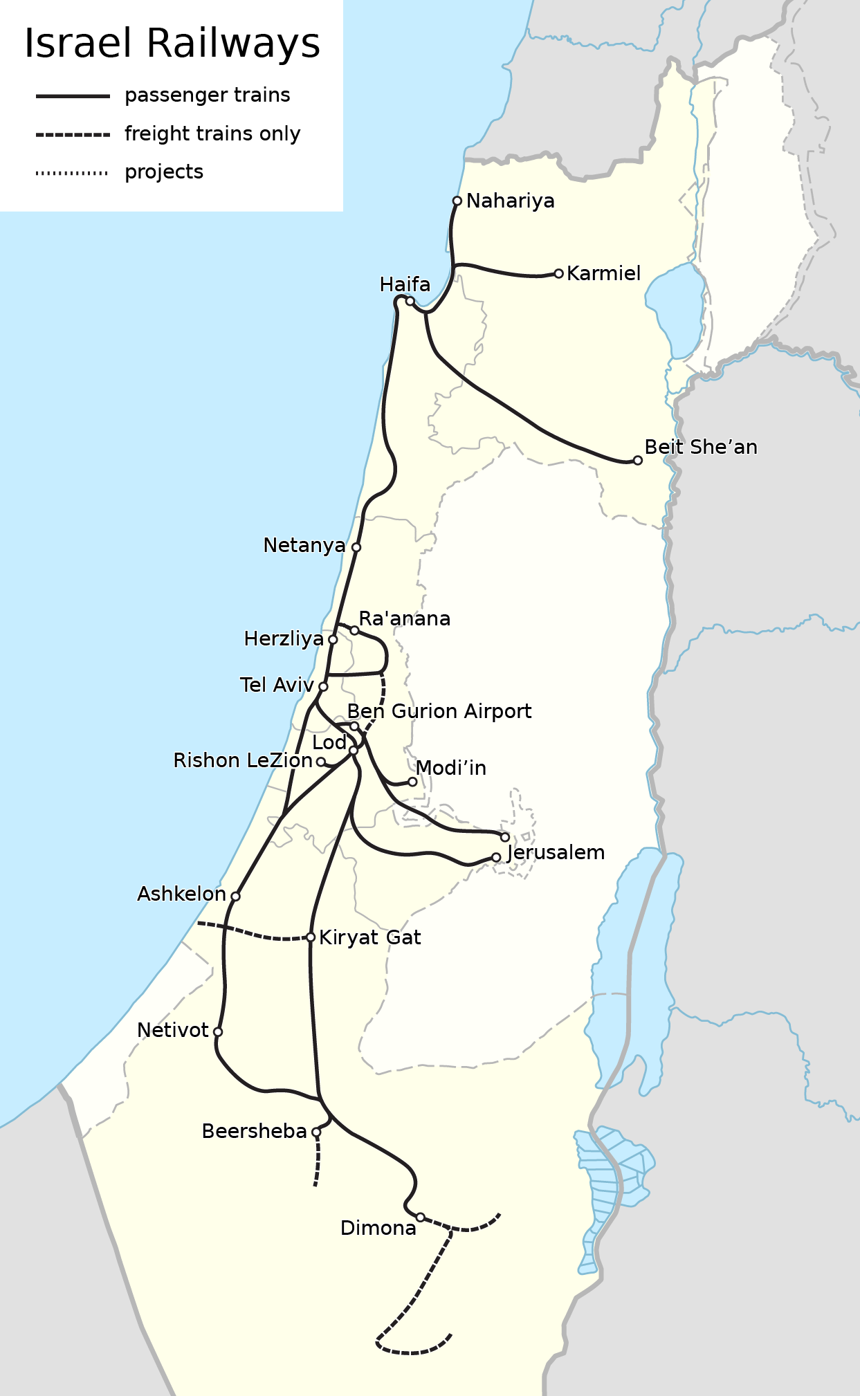 Map of the Railways in Israel